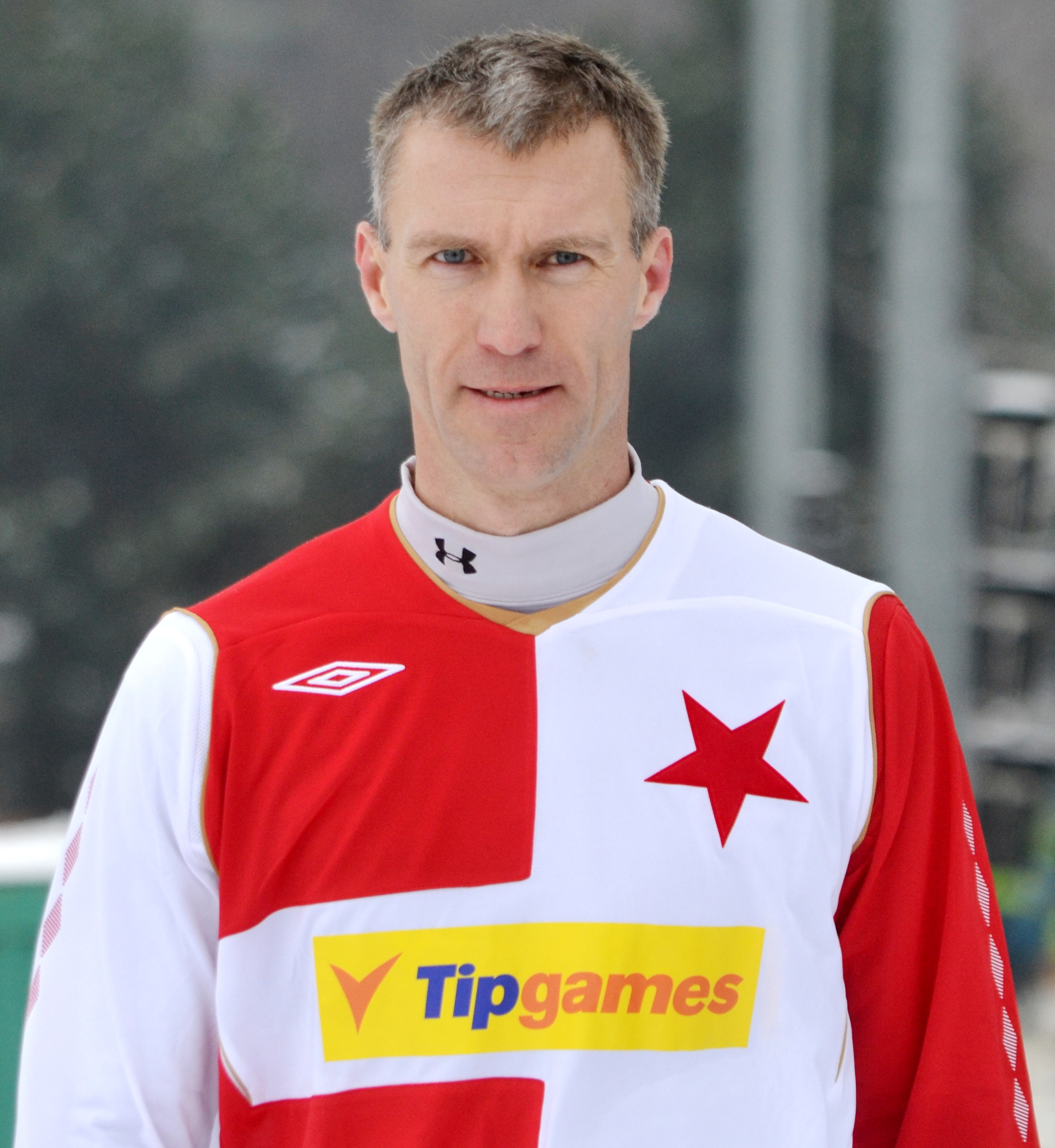 Martin Hyský, Czech footballer